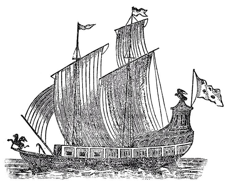 Woodcut of La Salle's griffon - lost on the great lakes.